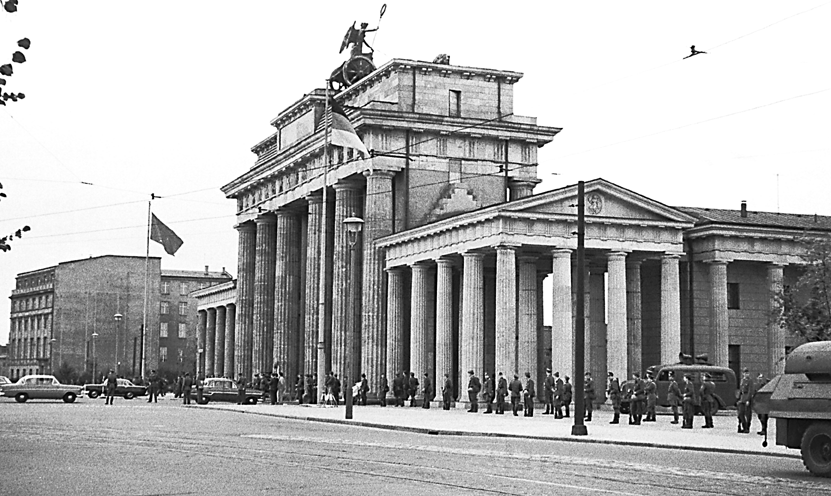 Closing of the border between the two parts of Berlin. Taken at the Brandenburger Tor.